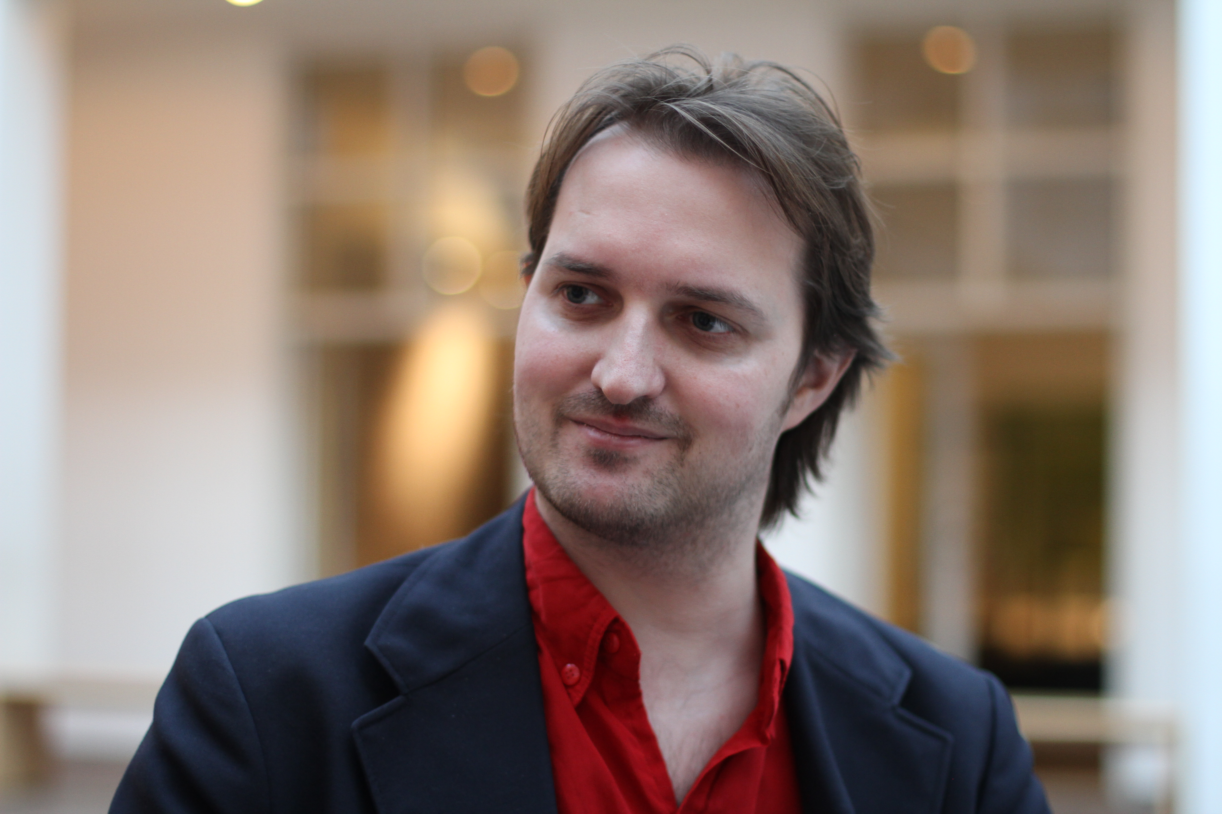 Peter Brodersen, Danish Internet entrepreneur